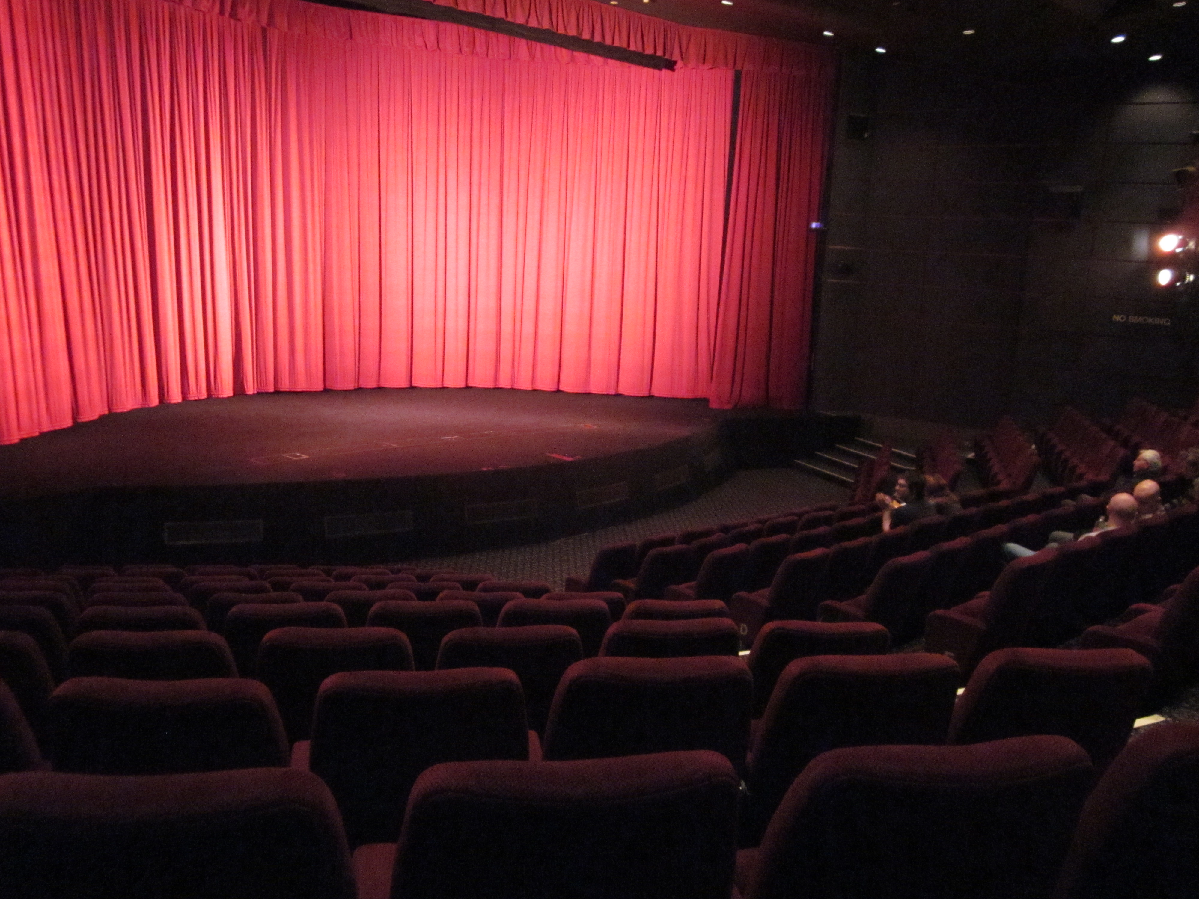 Interior of the Pictureville Cinema, Bradford, part of the National Media Museum. The curtains cover a curved screen ready to show a Cinerama film. A flat screen can be lowered from the top (just visible below the pelmet) for other films.